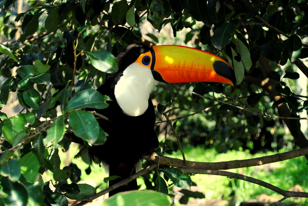 A Toco Toucan at Gramado Zoo, Brazil.